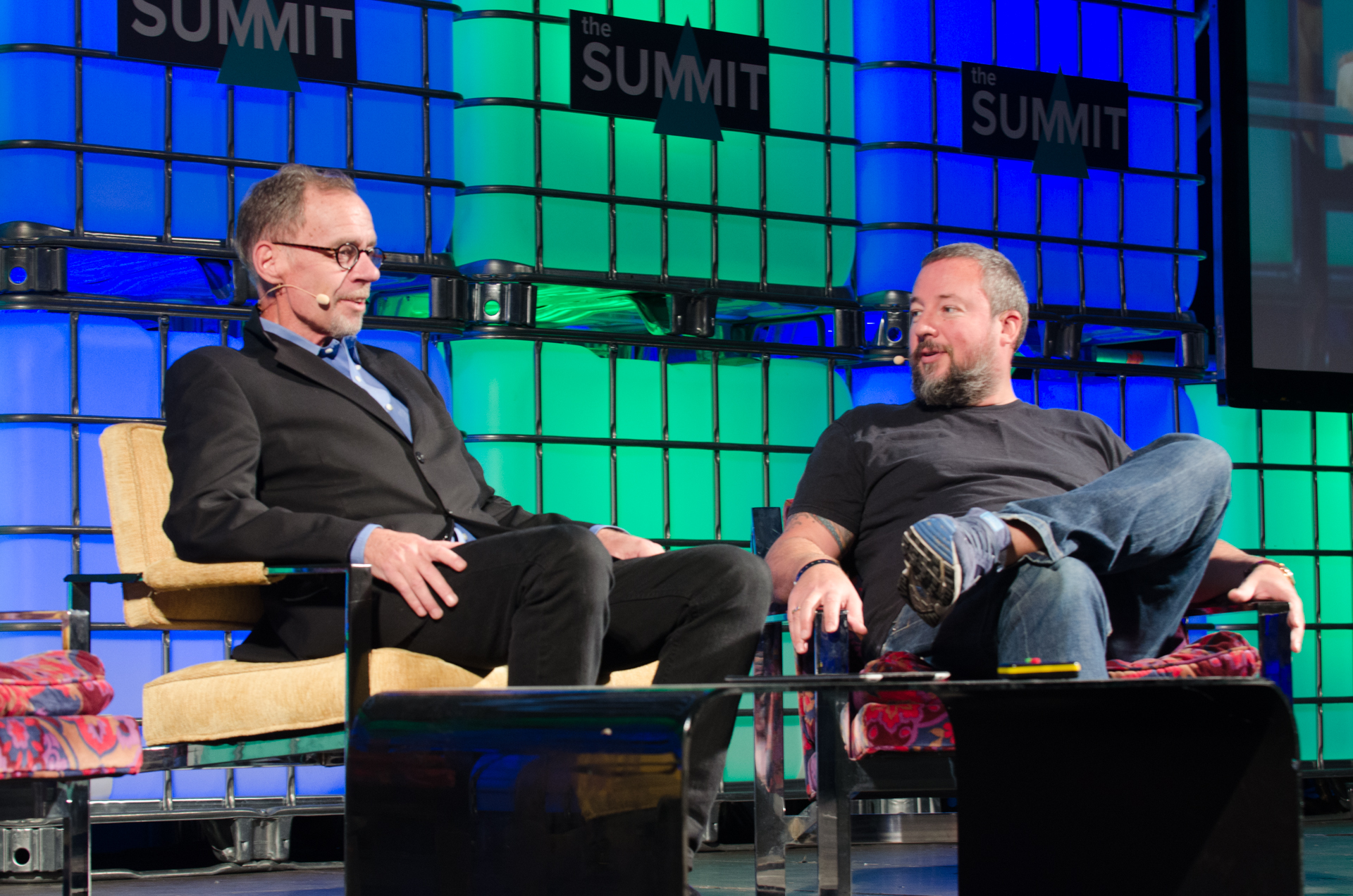 The Summit 2013 - Picture by Dan Taylor / Heisenberg Media